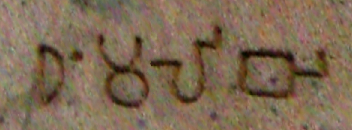 "Dhamma Libi" in the 7th Major PIllar Edict of Ashoka